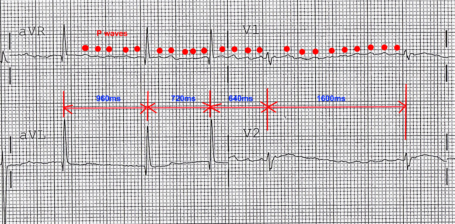 Atrial fibrillation with controlled ventricular rate.